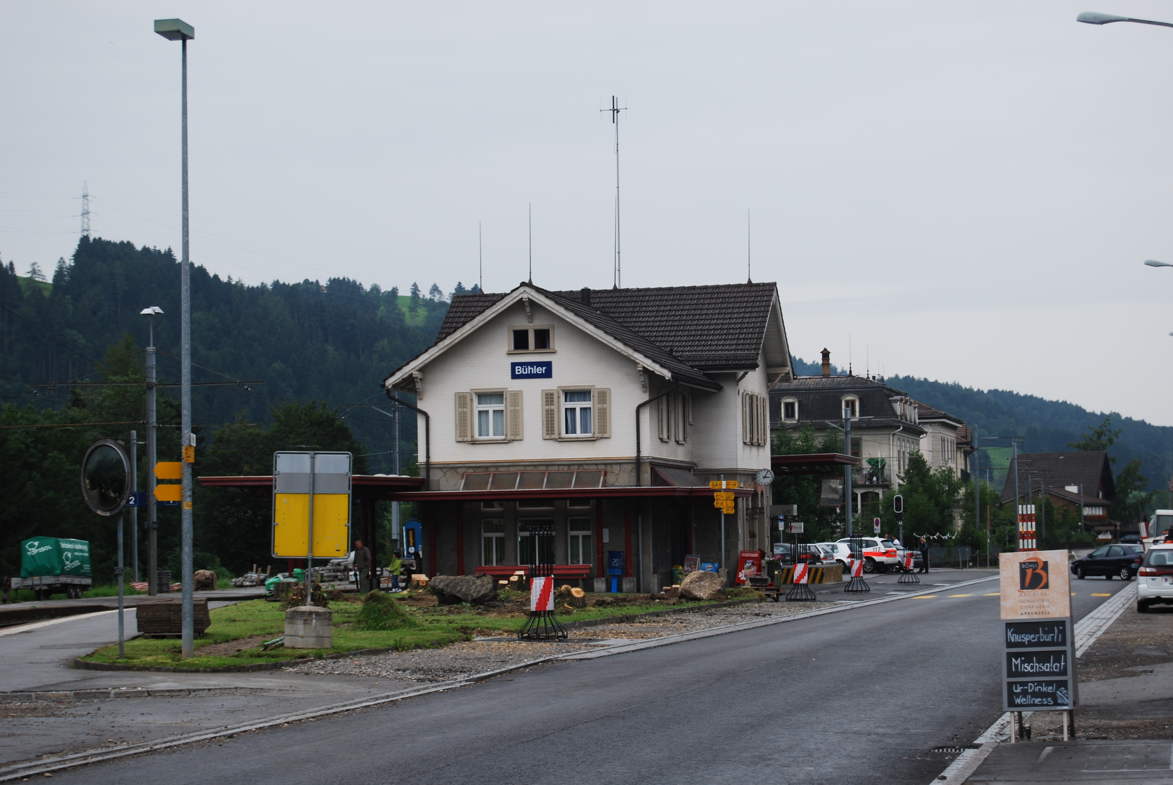 Train station of Bühler, canton of Appenzell Ausserrhoden, Switzerland